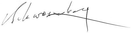 Karel Schwarzenberg Signature on the Lisabon Treaty